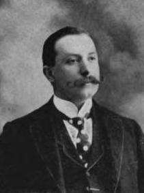 Portrait of New York assemblyman George H. Whitney